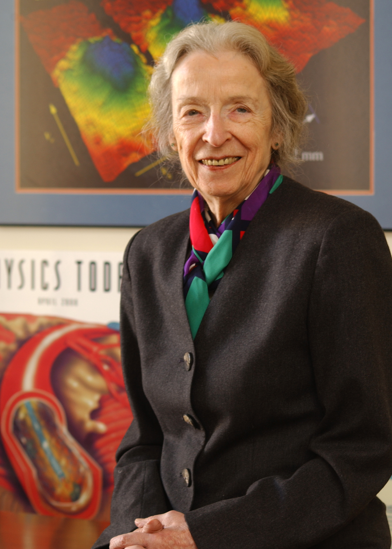 Portrait of Katharine Blodgett Gebbie